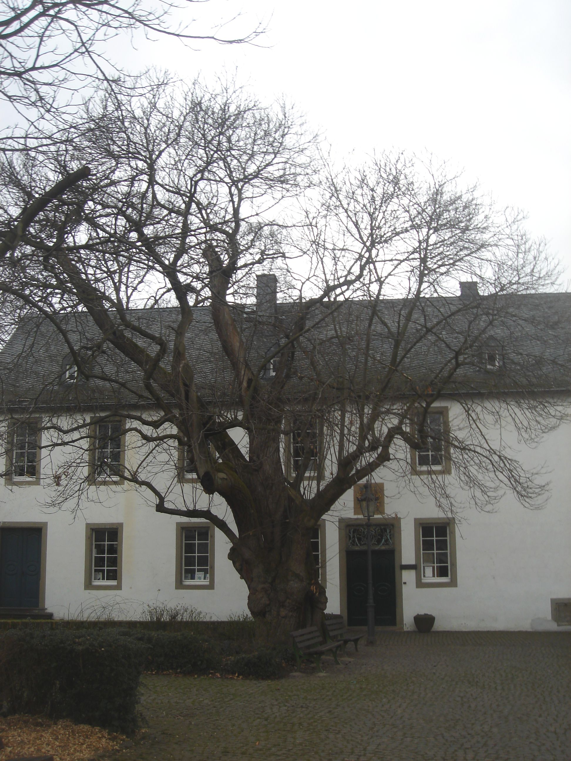 Courtyard of the castle Burg Endenich in Bonn-Endenich, Germany.